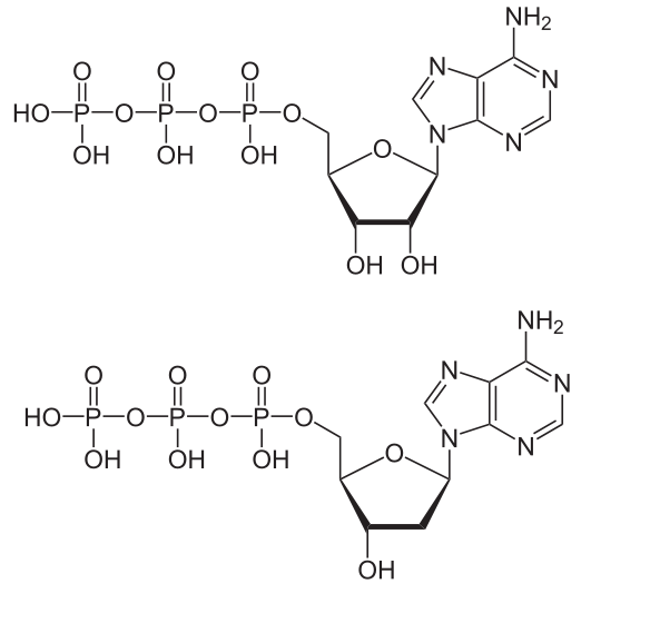 Both adenosine triphosphate (ATP) and deoxyadenosine triphosphate (dATP)in a single picture